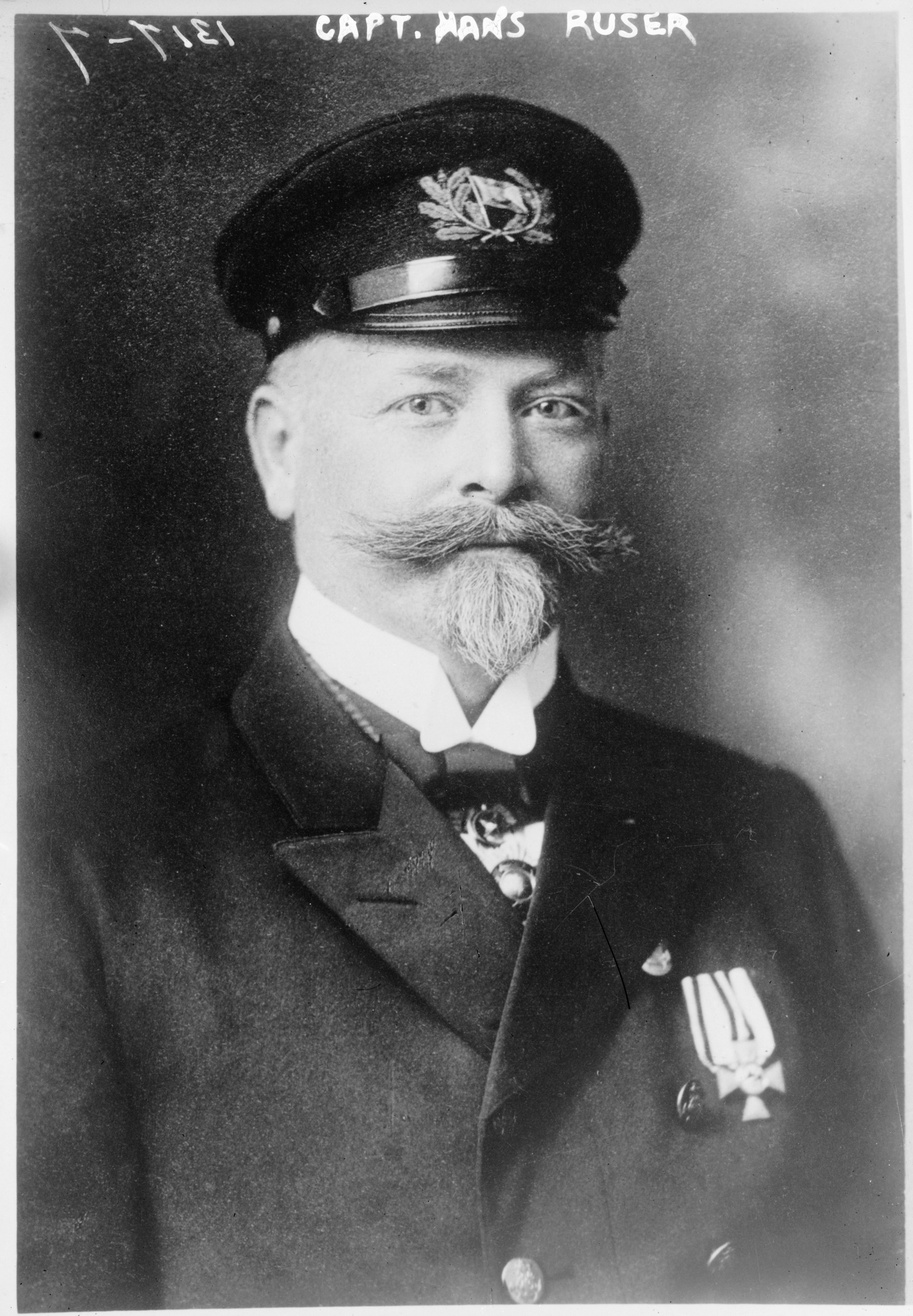 Capt. Hans Ruser. Repository: Library of Congress Prints and Photographs Division Washington, D.C. 20540 USA. Public Domain.